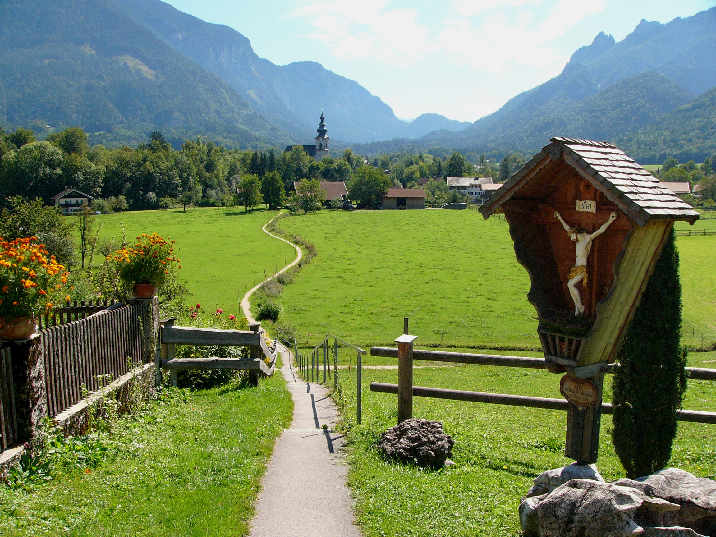 View to Großgmain, village in Austria